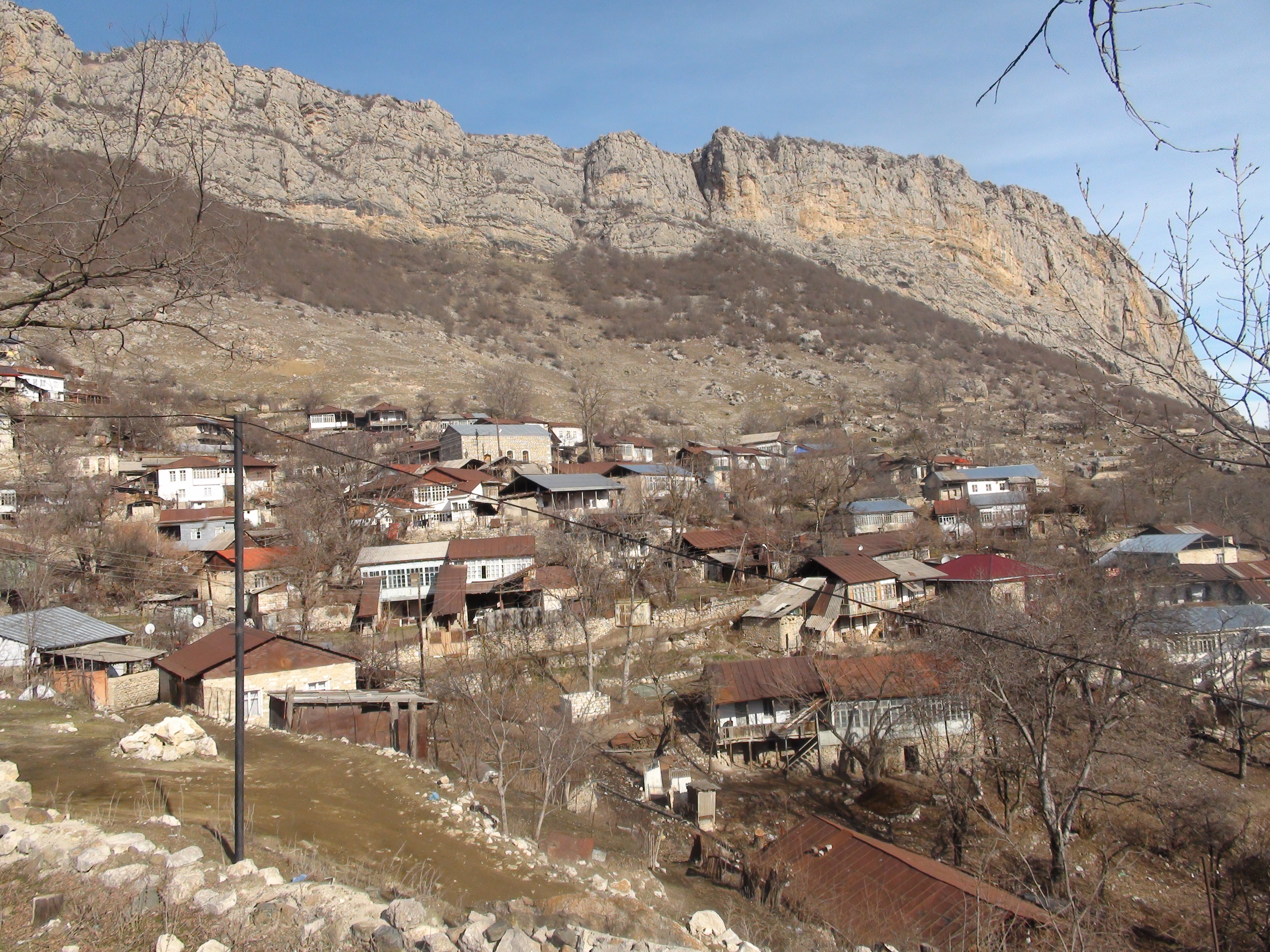 vilaghe